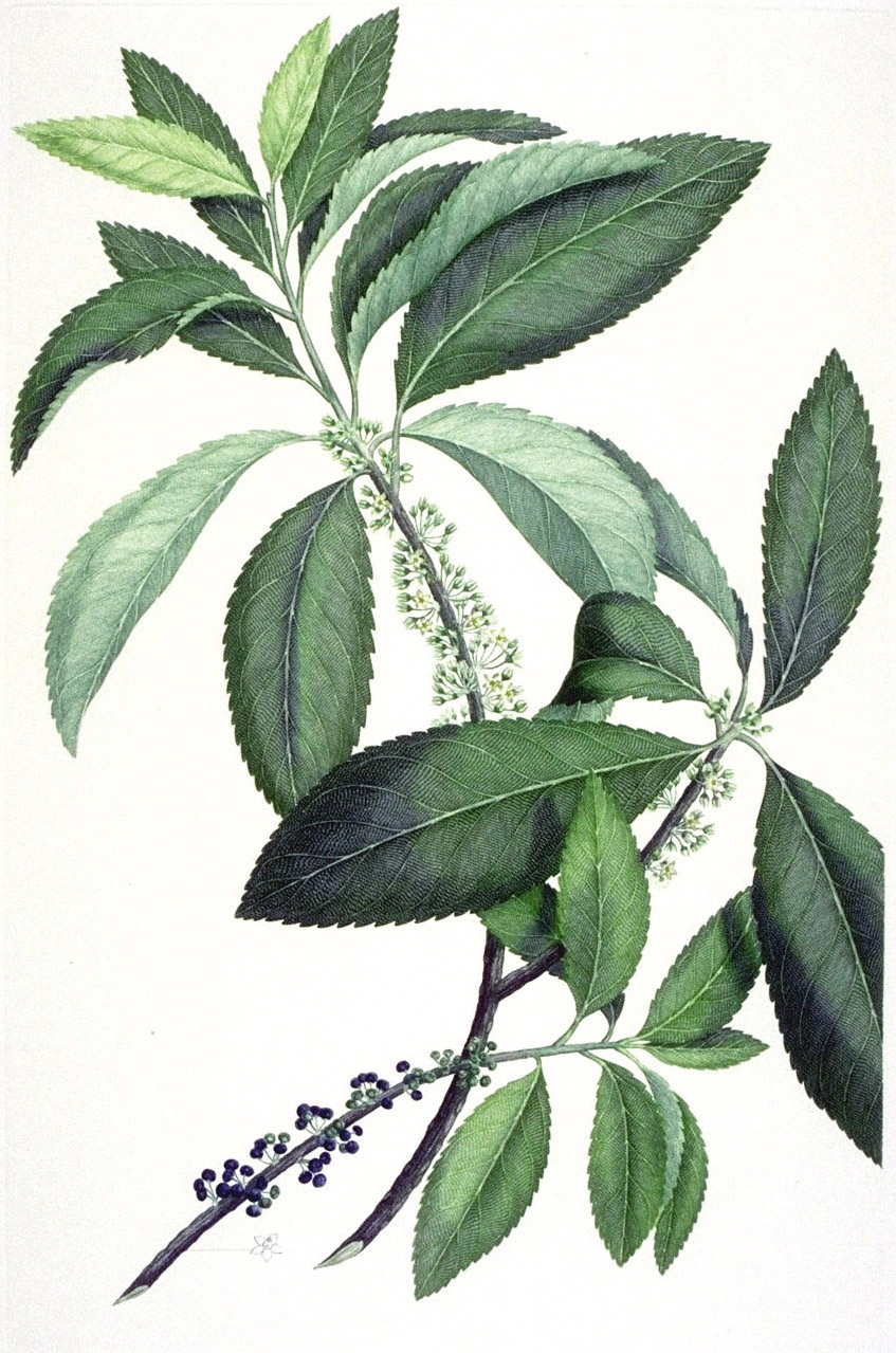 Melicytus ramiflorus, (Violaceae). This tree has two common names, 'Māhoe' and 'Whitey-wood', of which the Māori name Māhoe tends to be used more in New Zealand English.